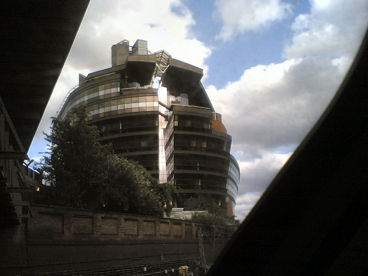 View of the office building dubbed "The Ark" or "The London Ark" (because of its resemblance to a large ship), from a London Underground train. Hammersmith, London, UK.